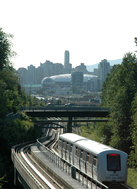 Skytrain heads downtown Vancouver. Max Batt 2006